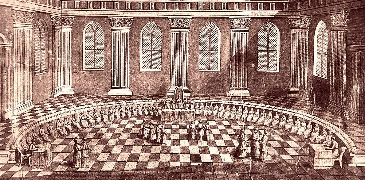 Souvenir print from the London tour (circa 1723-1730) of a model by Gerhard Schott (1641-1702) of Solomon's Temple, showing the the Council of the Sanhedrin.